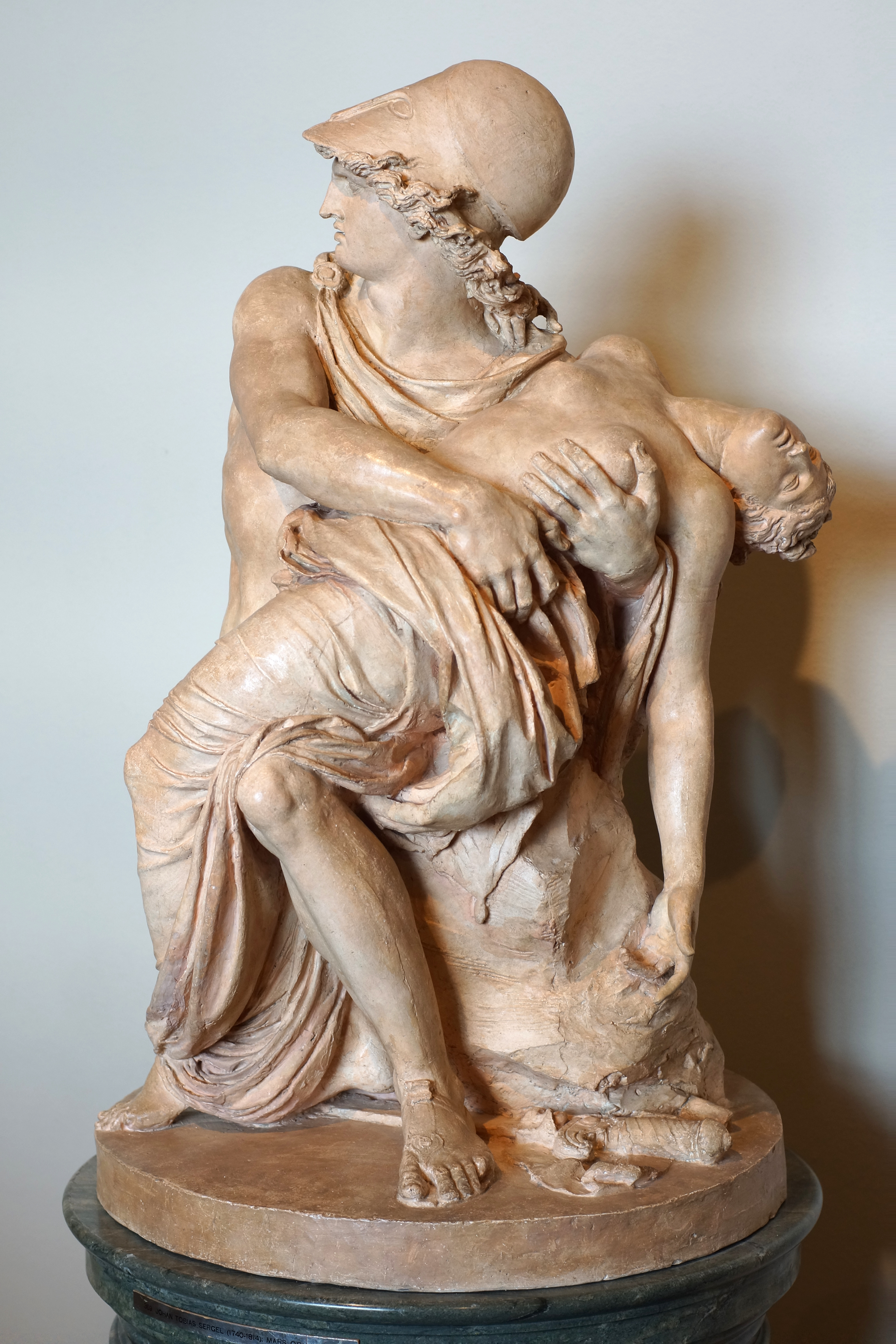 This is a photo of an artwork at the Gothenburg Museum of Art in Sweden with the identifier: Sk 369